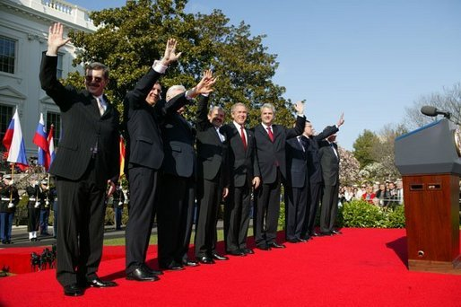 President George W. Bush stands with Prime Ministers of seven countries after a South Lawn ceremony welcoming them into NATO Monday, March 29, 2004. From left are: Prime Minister Indulis Emsis of Latvia, Prime Minister Anton Rop of Slovenia, Prime Minister Algirdas Brazauskas of Lithuania, Prime Minister Mikulas Dzurinda of Slovakia, President George Bush of the United States, Prime Minister Adrian Năstase of Romania, Prime Minister Simeon Saxe-Coburg Gotha of Bulgaria, Prime Minister Juhan Parts of Estonia, and NATO Secretary General Jaap de Hoop Scheffer.